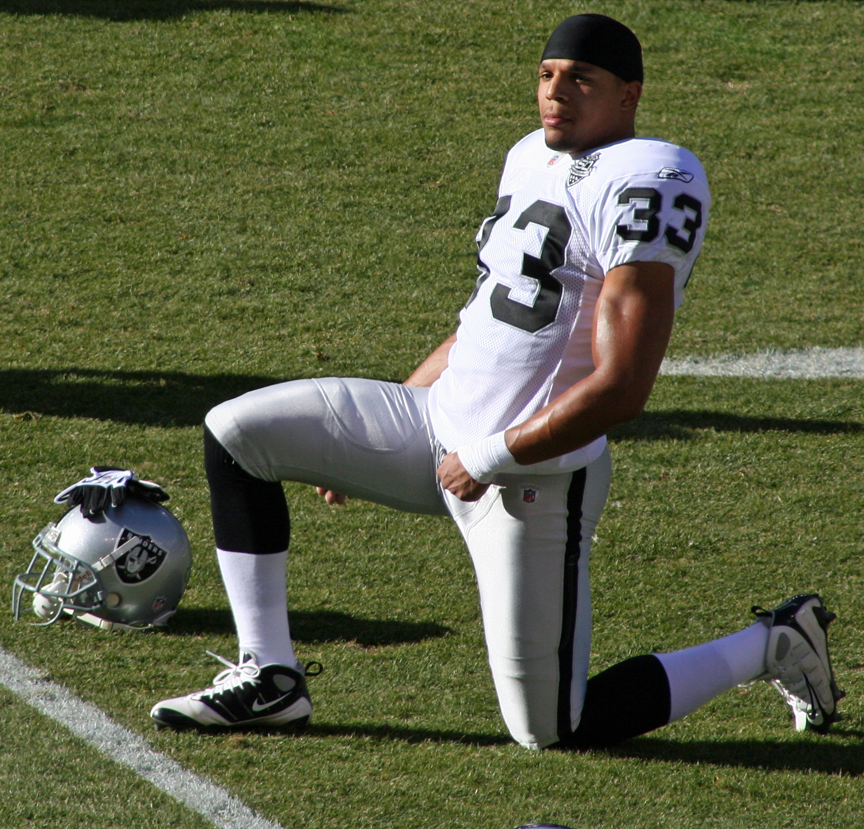 Tyvon Branch, a player on the Oakland Raiders American footbal lteam.